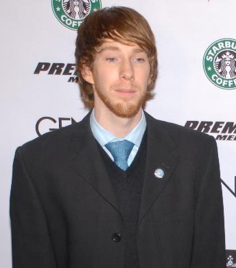 American actor Chris Owen